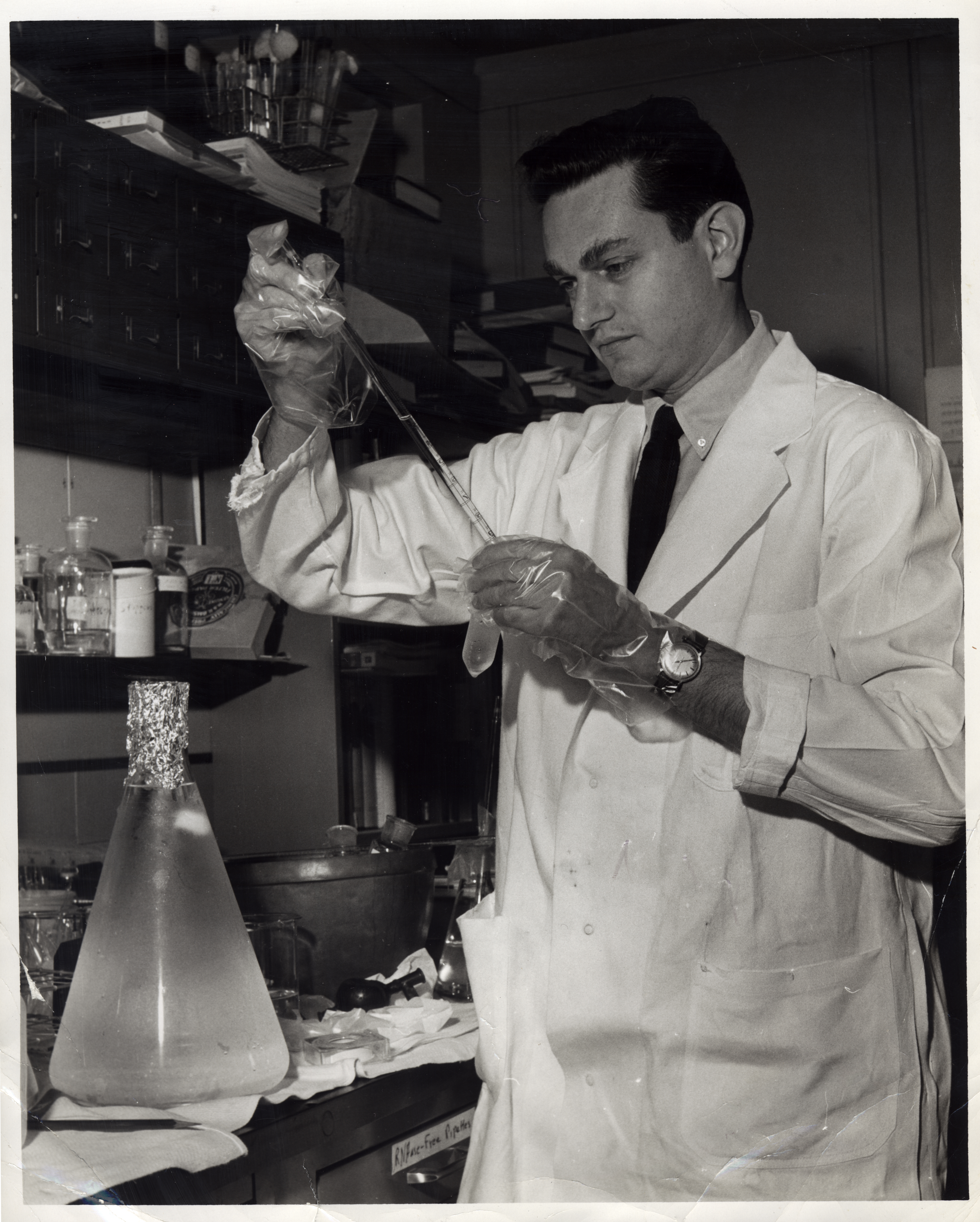 Marshall_Nirenberg_performing_experiment. Photograph of experiment likely related to protein synthesis and genetic code translation.